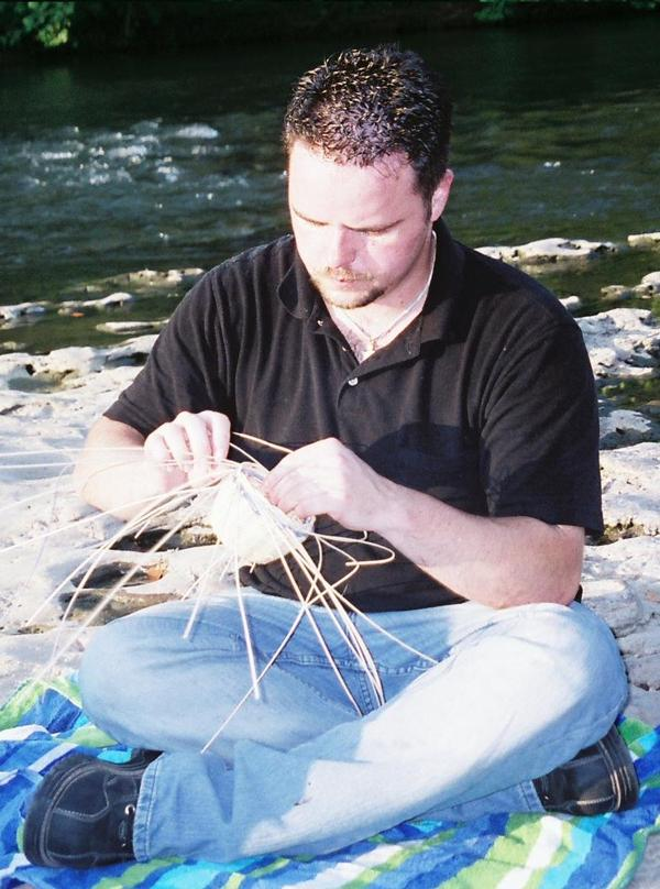 Cherokee Basketry artist, Mike Dart Weaving on the banks of the Illinois River, Cherokee Nation of Oklahoma, circa 2007.